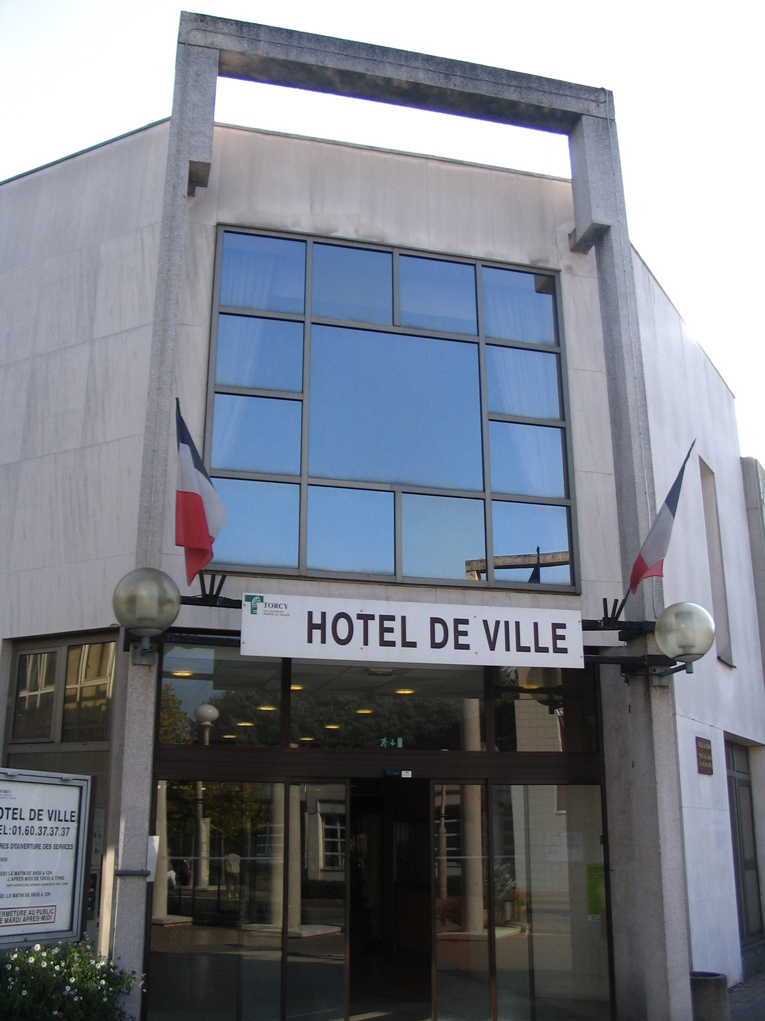 The town hall of Torcy, Seine-et-Marne, France.